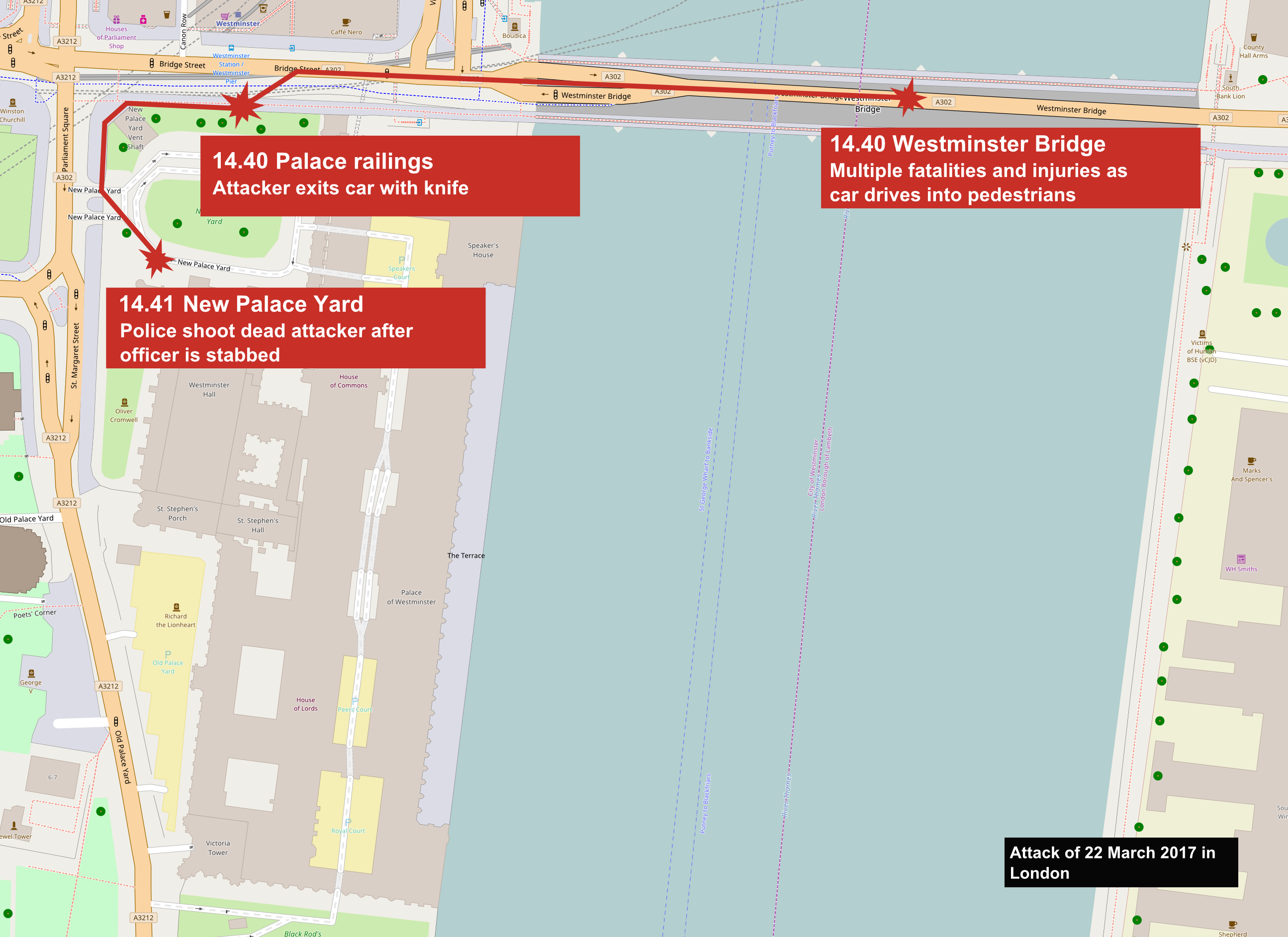 2017 Westminster attack map - based on map at [1]